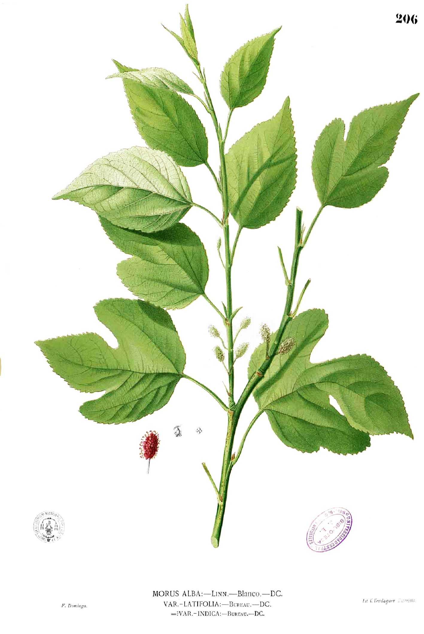 Plate from book